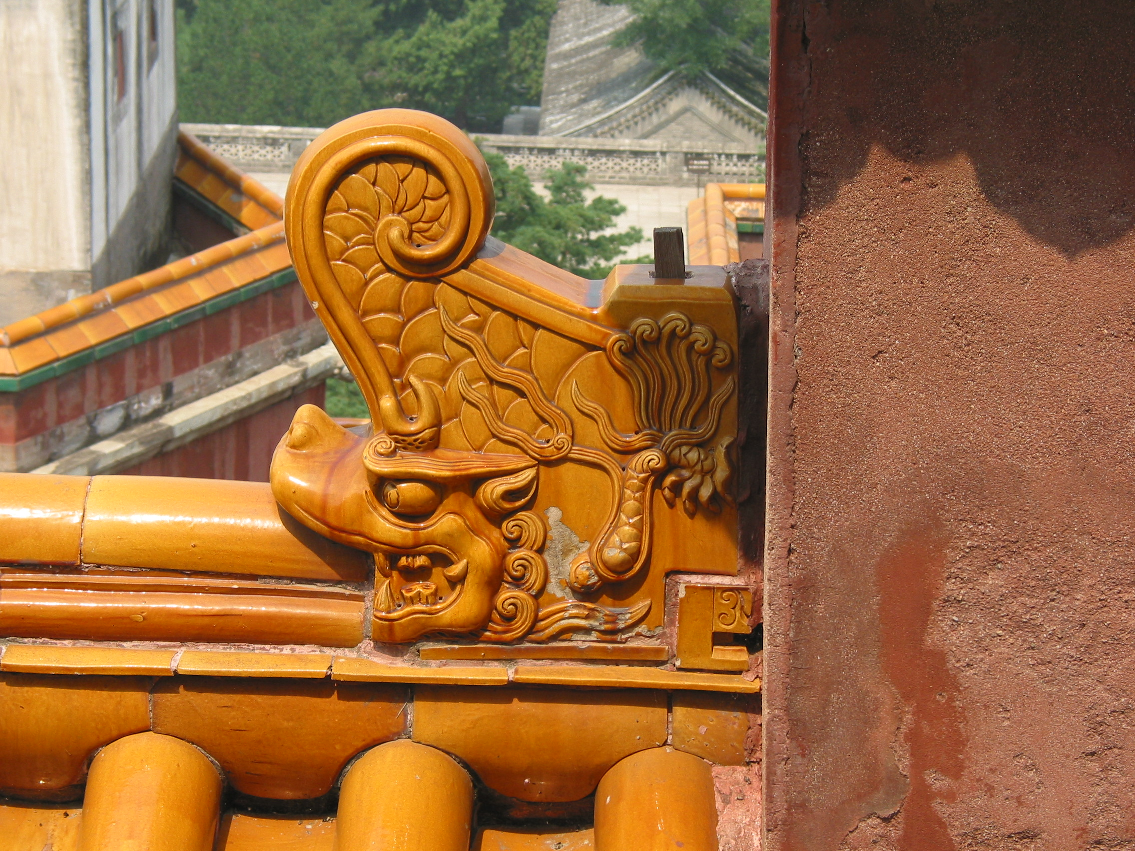 Wenshou (吻兽) on the wall in Summer Palace, Beijing, China